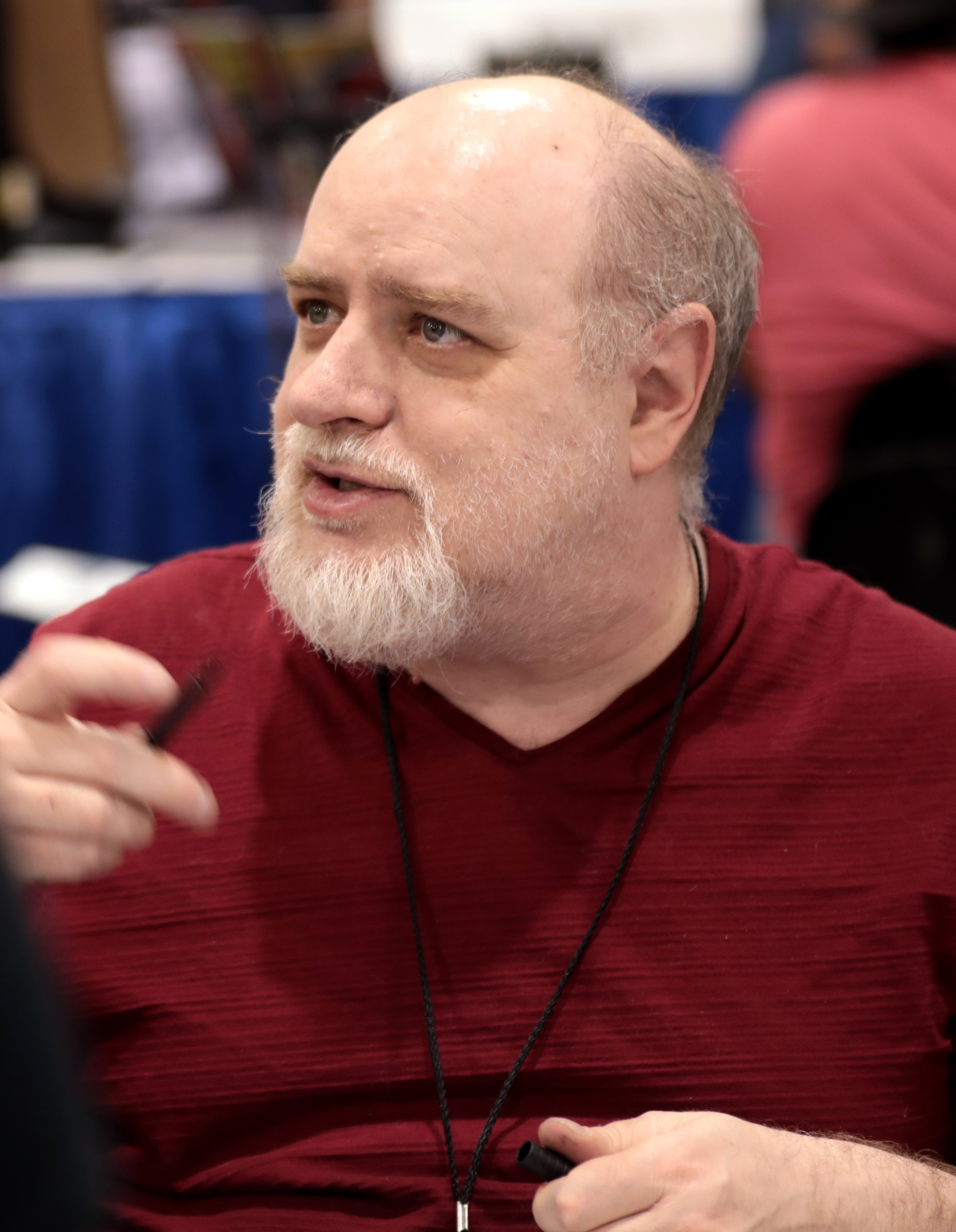 Ty Templeton speaking at the 2019 Phoenix Fan Fusion in Phoenix, Arizona.